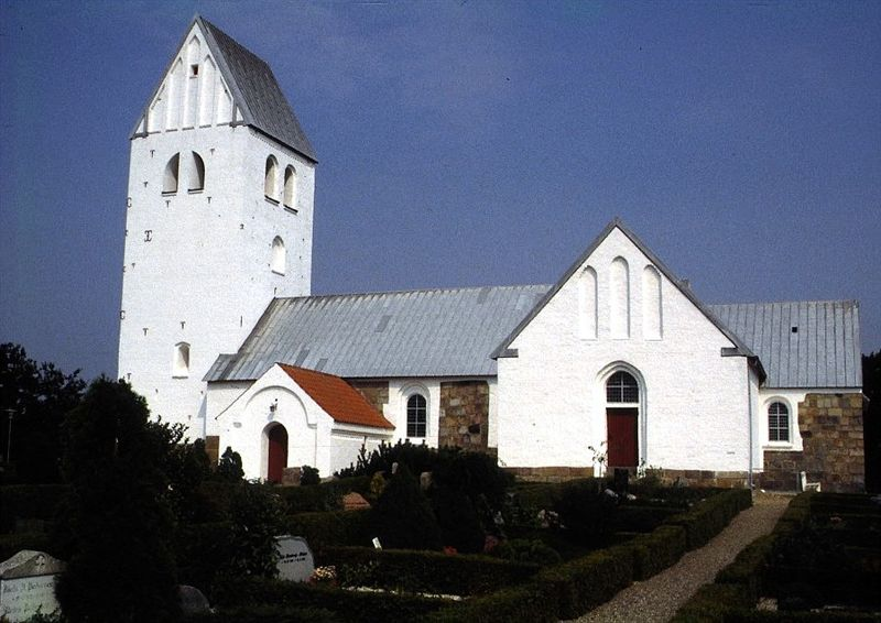 Outside view of Ejsing Church